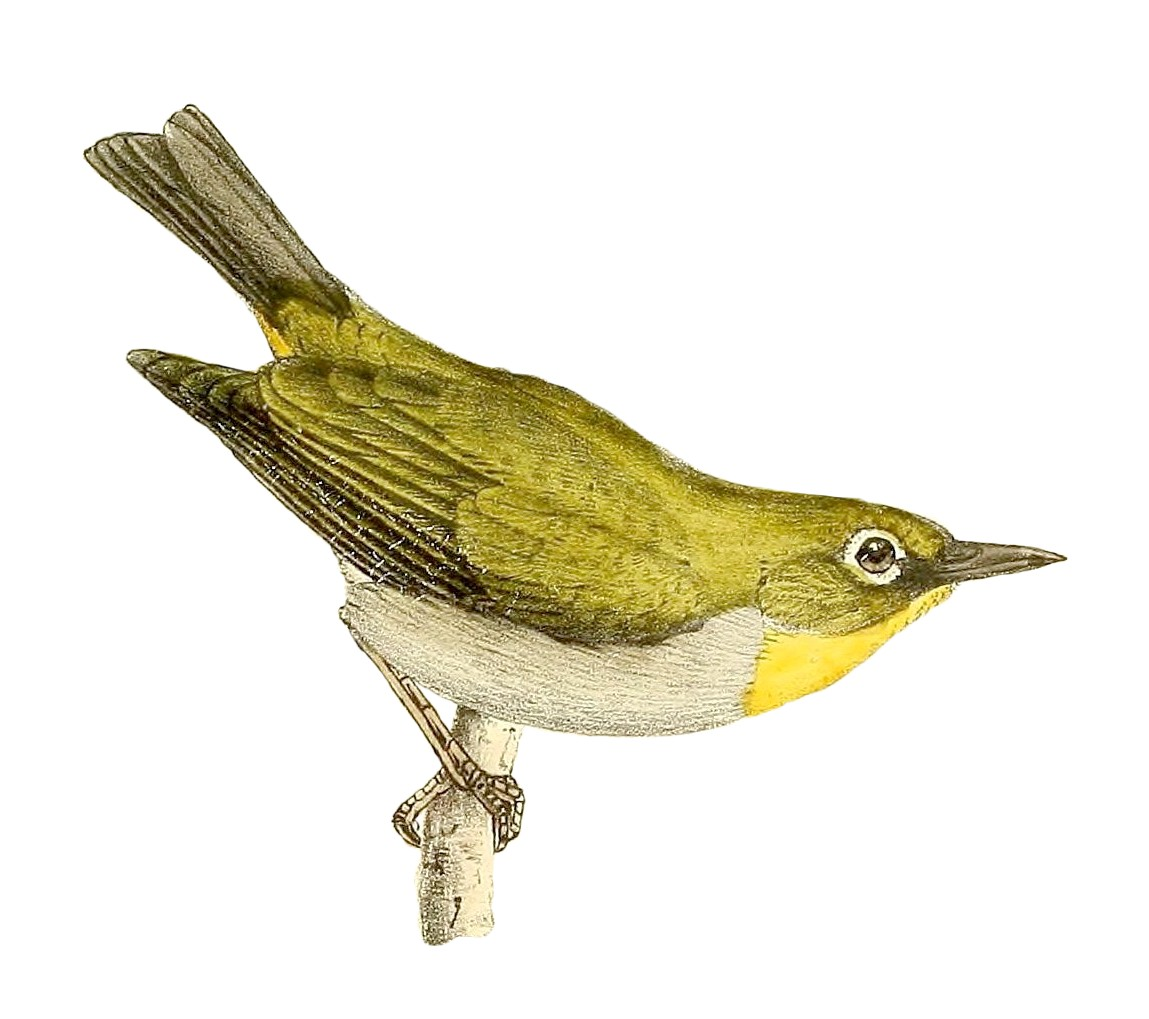 Zosterops madagascariensis = Zosterops maderaspatanus (Malagasy White-eye)